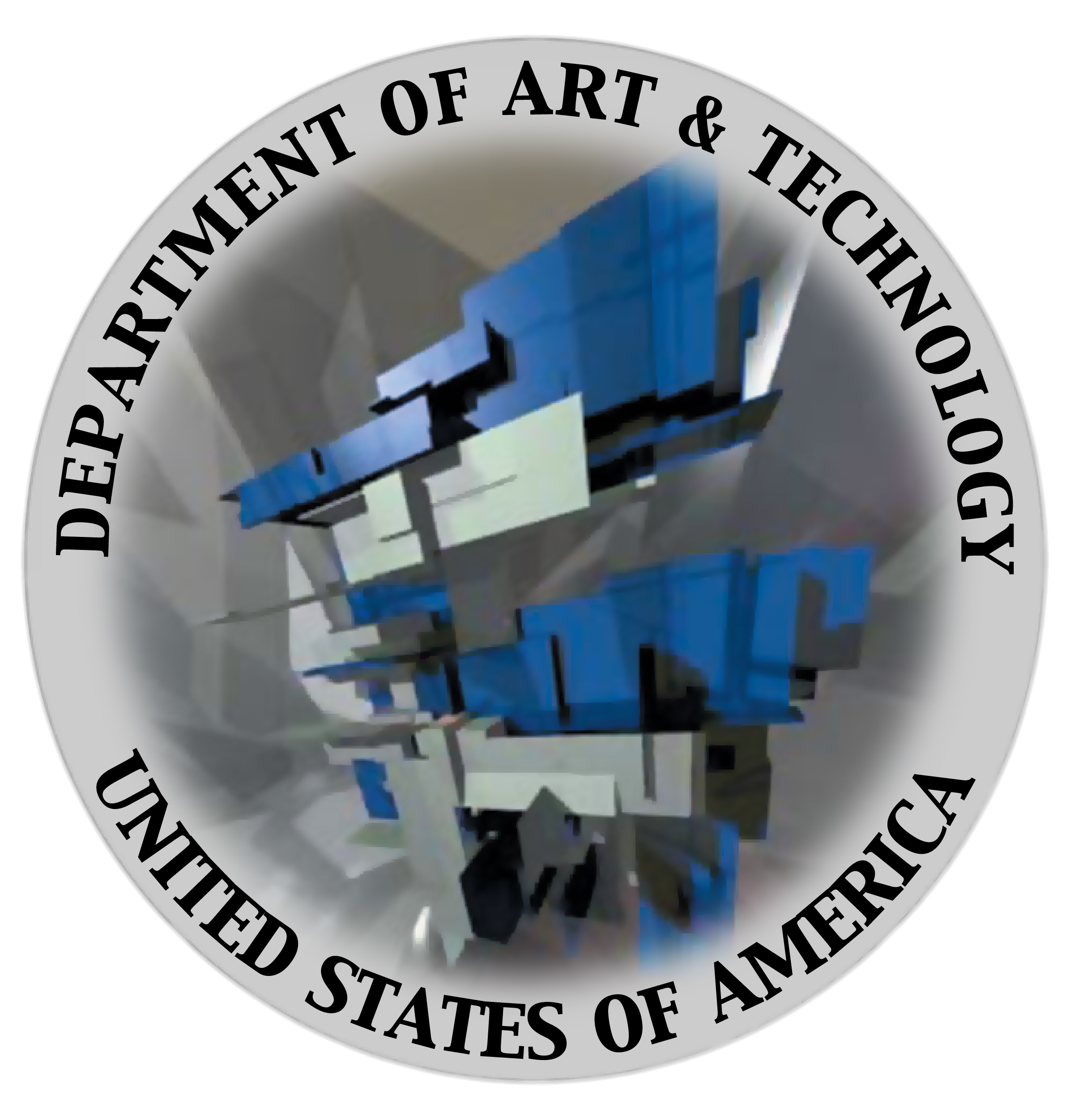 The official seal of the US Department of Art & Technology, a virtual government agency created by Randall Packer.